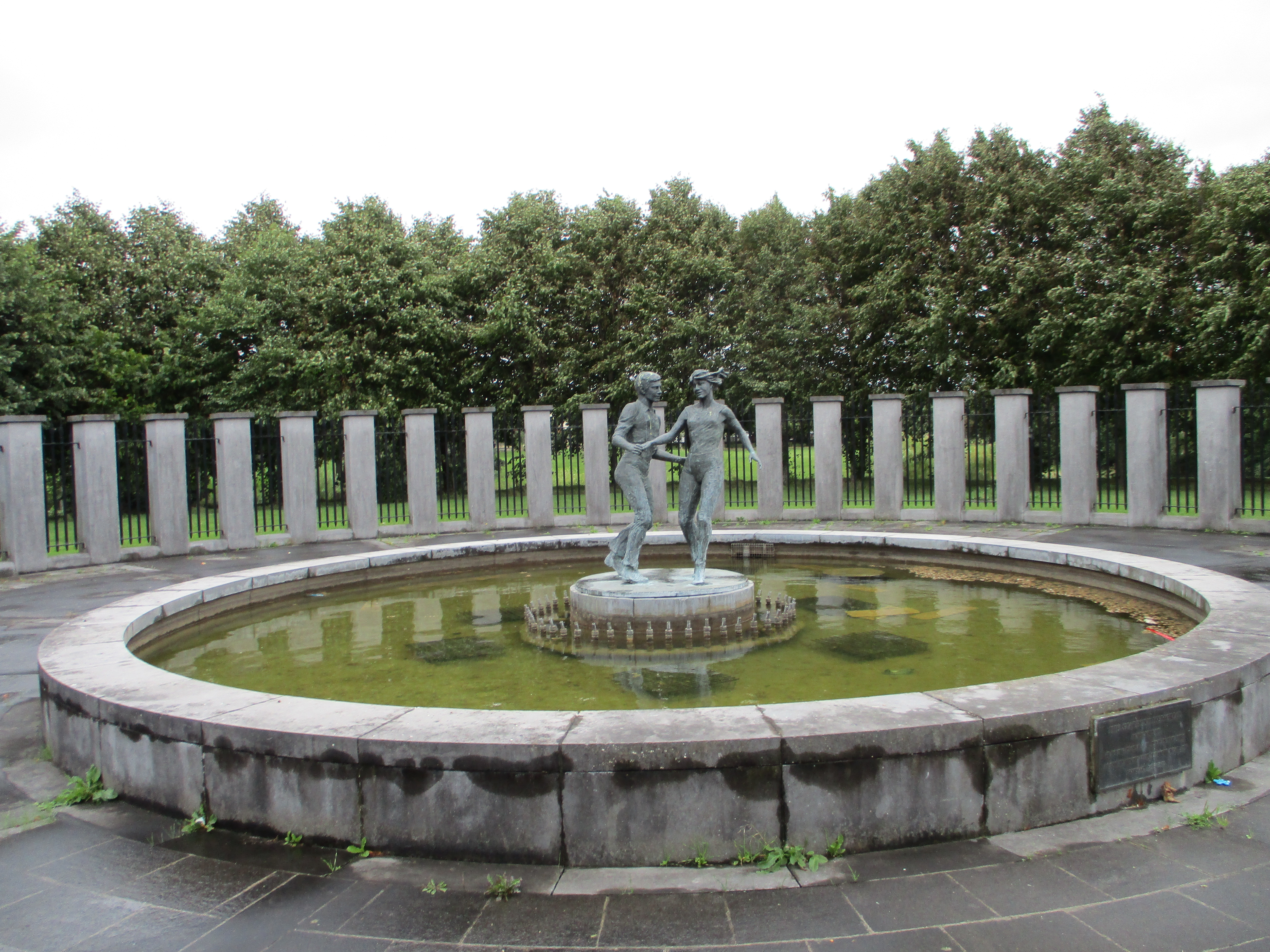 Dancing Couple Sculpture in Stardust Memorial Park, Coolock, Dublin